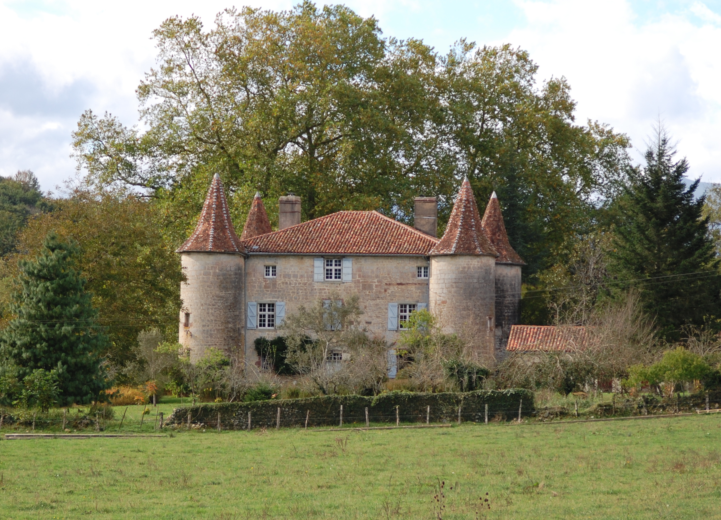 Aphate Jauregia, north face.